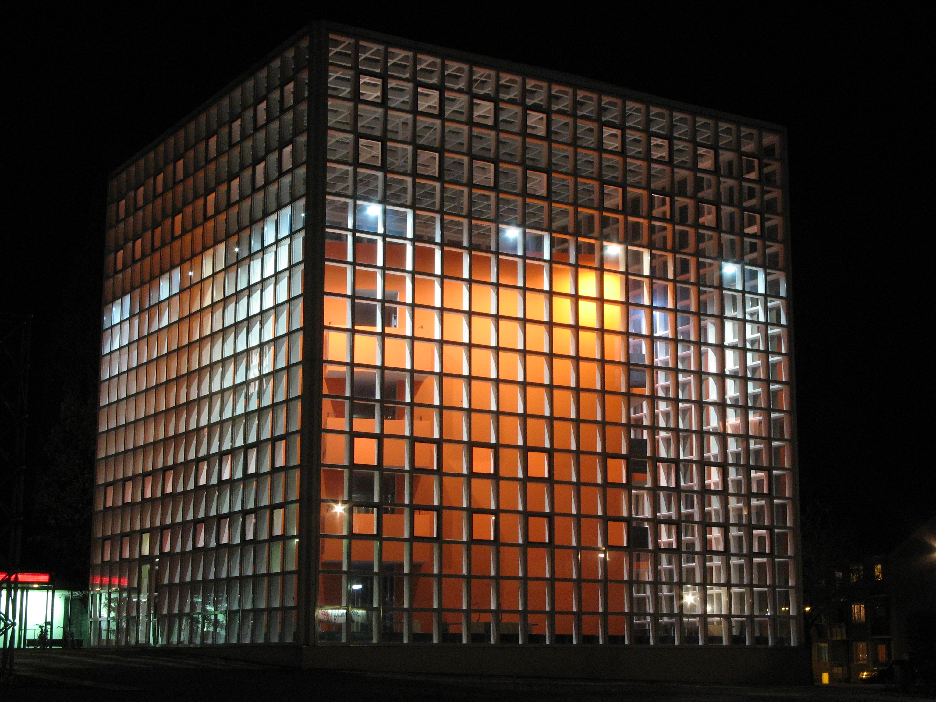 HBK Library